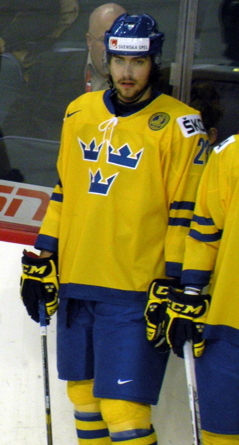 Swedish forward Ludvig Rensfeldt prior to the gold medal game of the 2012 World Junior Hockey Championships at Calgary, Alberta, Canada.